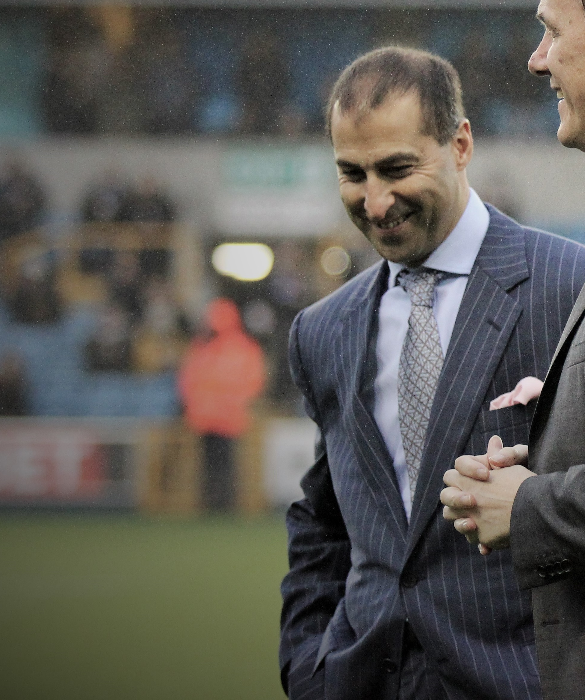 Jimmy Carter and Tony Cascarino at Millwall in 2015